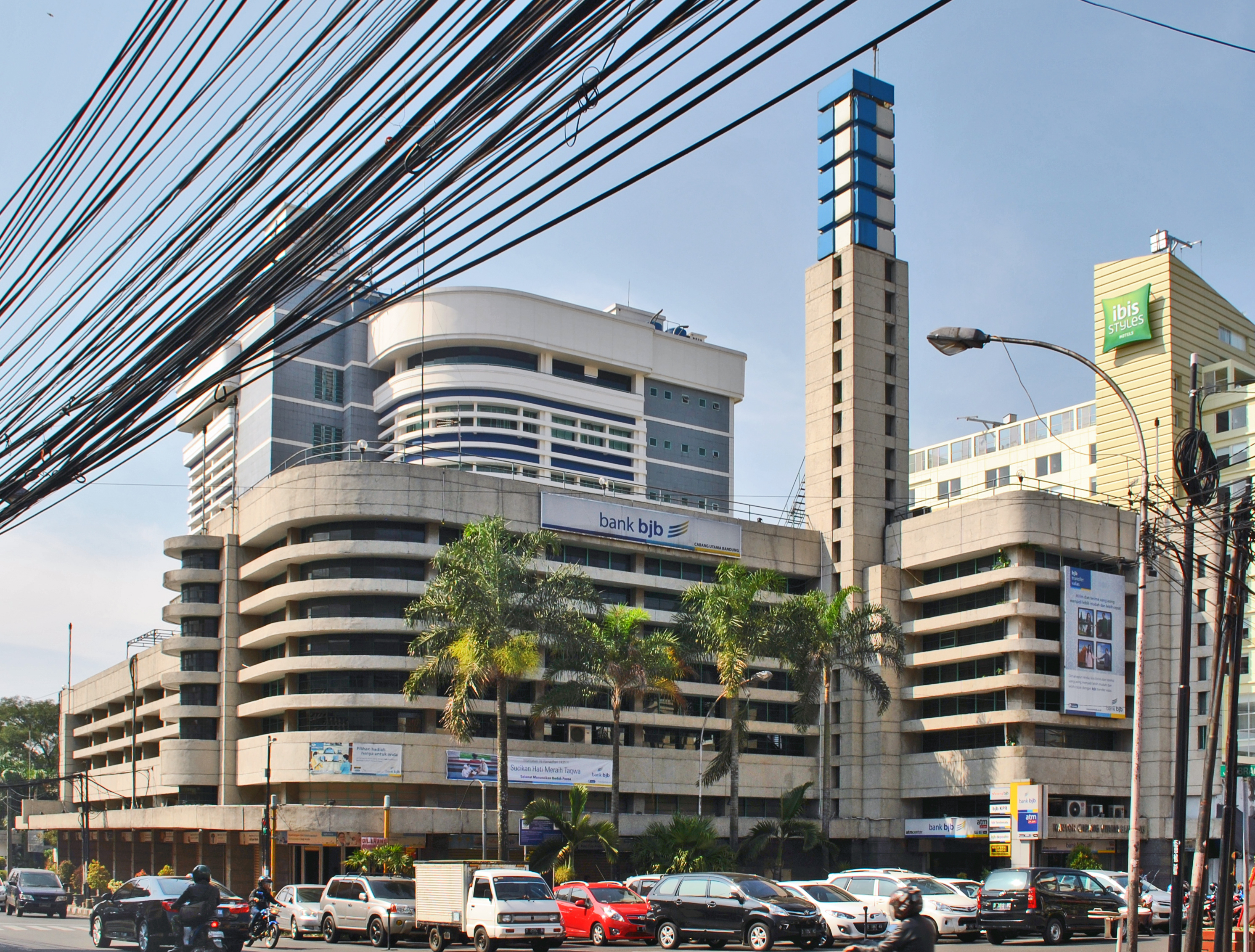 The streamline moderne DENIS bank building in Bandung, West Java. Designed by Albert Aalbers and completed in 1936, it is regarded as local architectural masterpiece. Today is the Bank BJB's main branch office for Bandung.